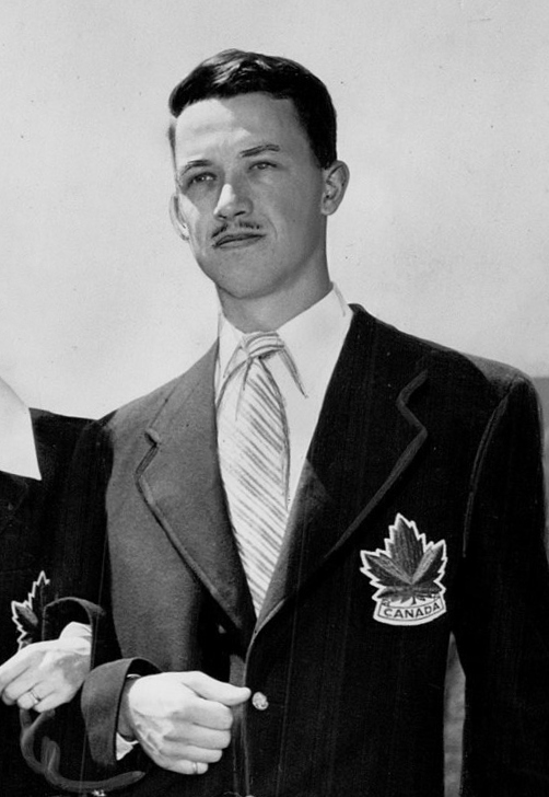 Off to Olympics at London, England: Art Jackes.